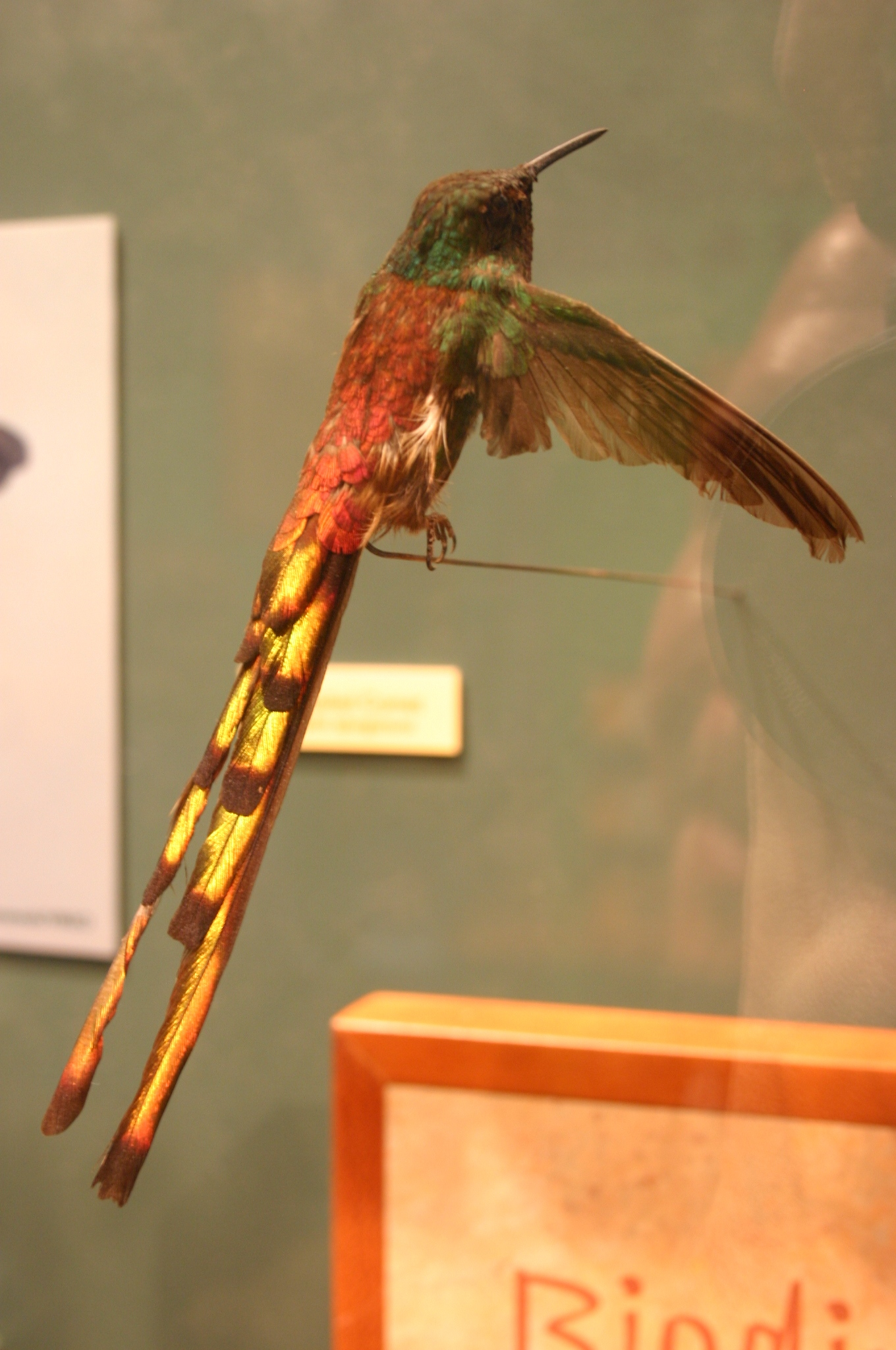 Stuffed Red-tailed Comet (Sappho sparganura) at North Carolina Museum of Natural Sciences